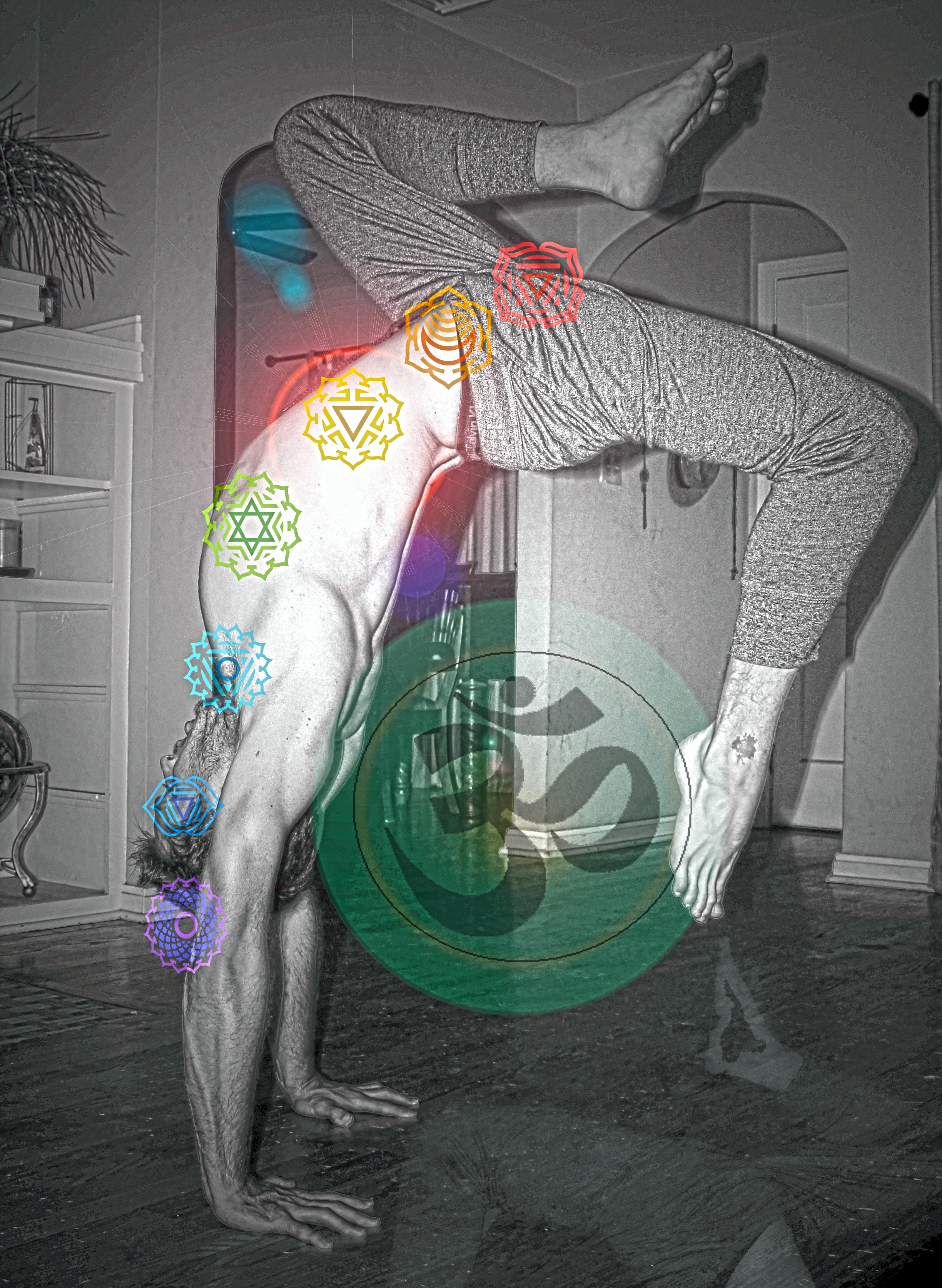 Drew Osborne Yoga